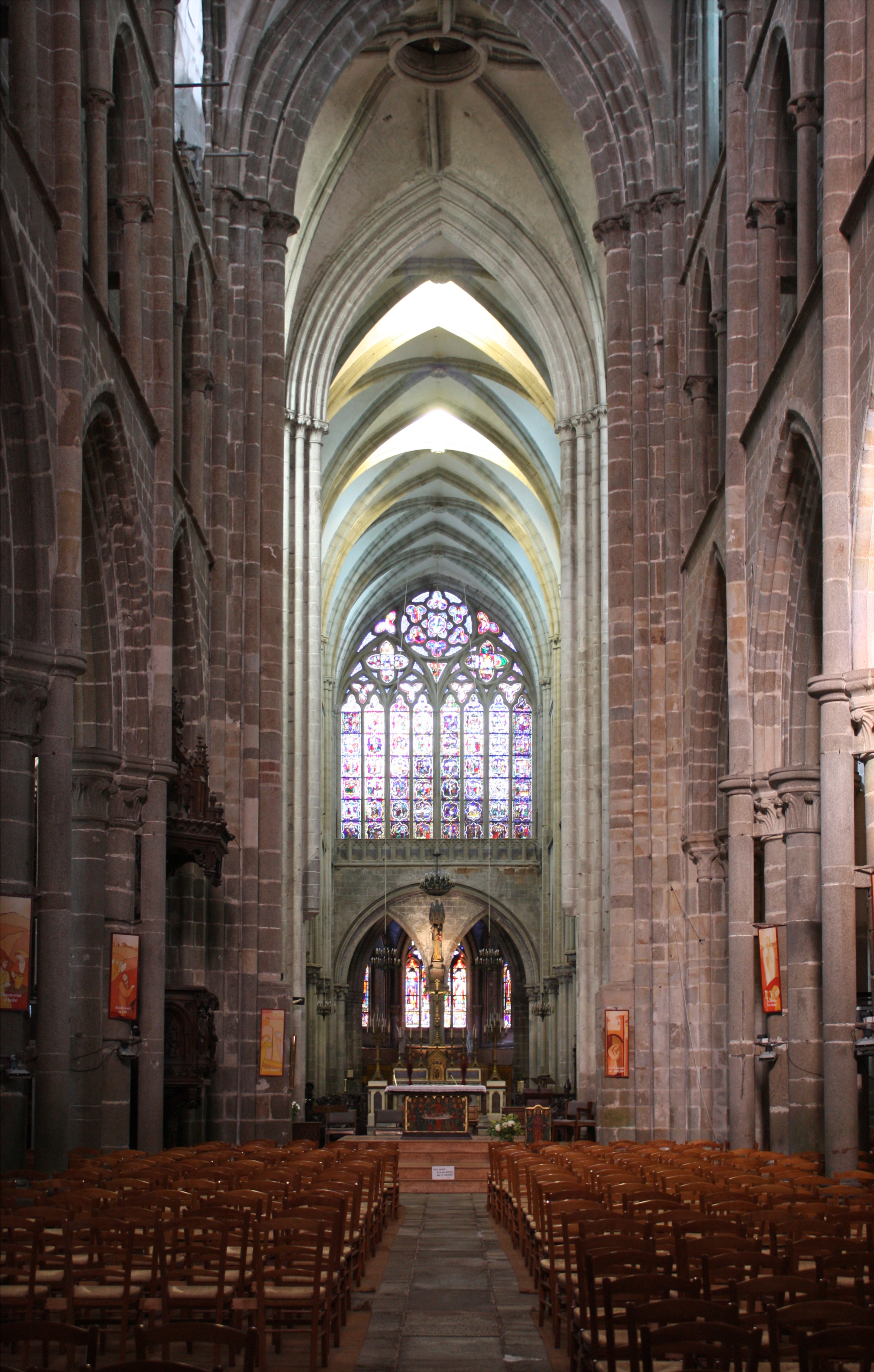 Nave of the cathedral Saint-Samson in Dol-de-Bretagne.